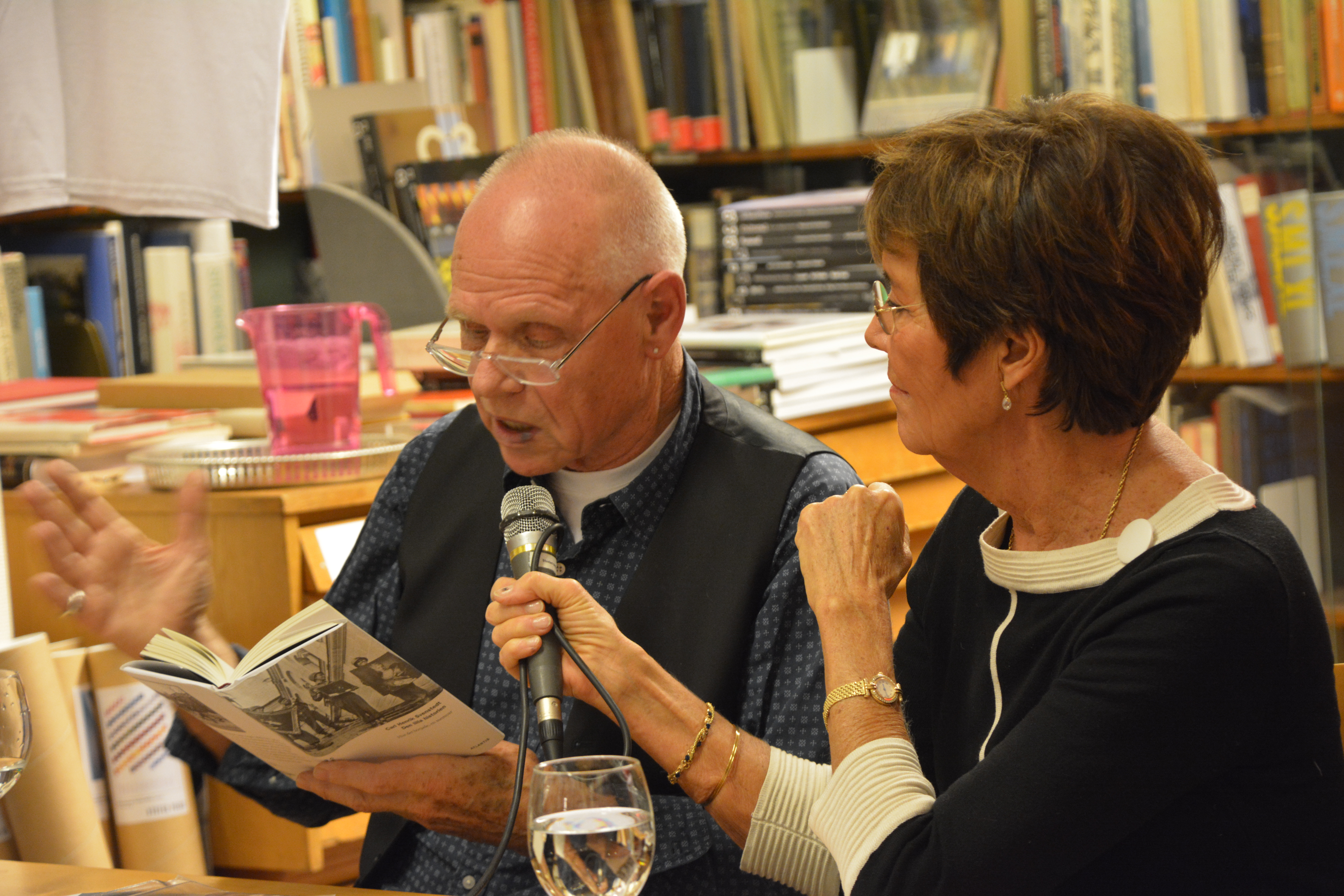 Carl Henrik Svenstedt och Ingela Lind på författarmöte på Rönnells Antikvariat lördagen den 6 december 2012